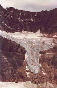 Angel Glacier on Mount Edith Cavell, Jasper National Park, Canada.Photo taken from the Cavell Meadows.